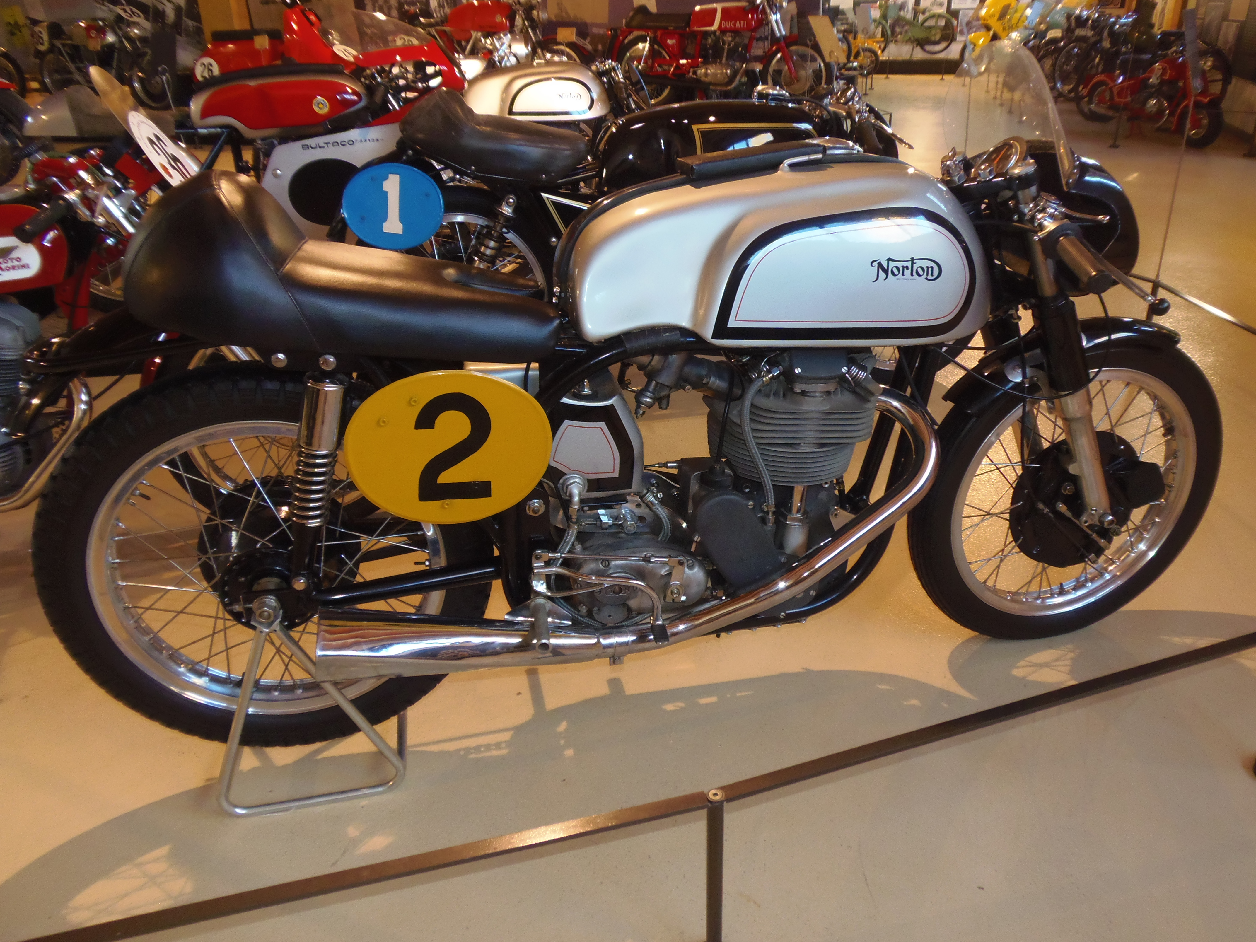 Norton Manx 500 (1953). This unit belonged to John Grace.